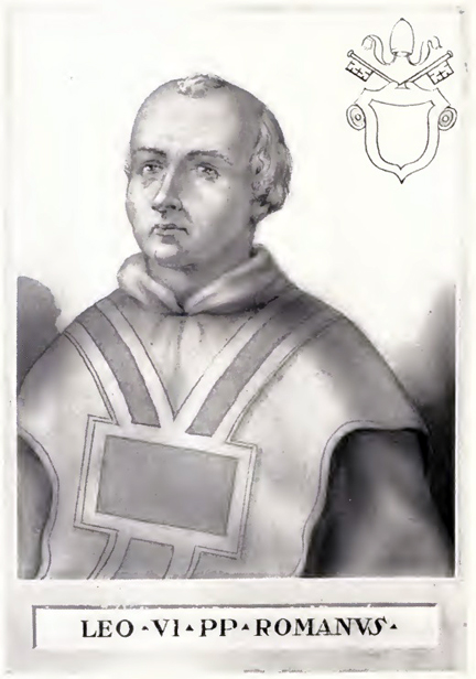 This illustration is from The Lives and Times of the Popes by Chevalier Artaud de Montor, New York: The Catholic Publication Society of America, 1911. It was originally published in 1842.